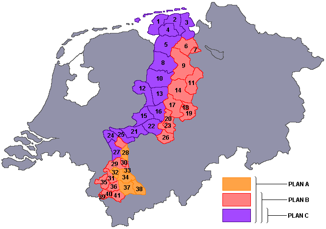 Map of the Netherlands and the German states of Bremen (right next to No. 7), Lower Saxony and North Rhine-Westphalia. Shown are the areas which (following a plan by Frits Bakker Schut) should go the Netherlands after WWII.